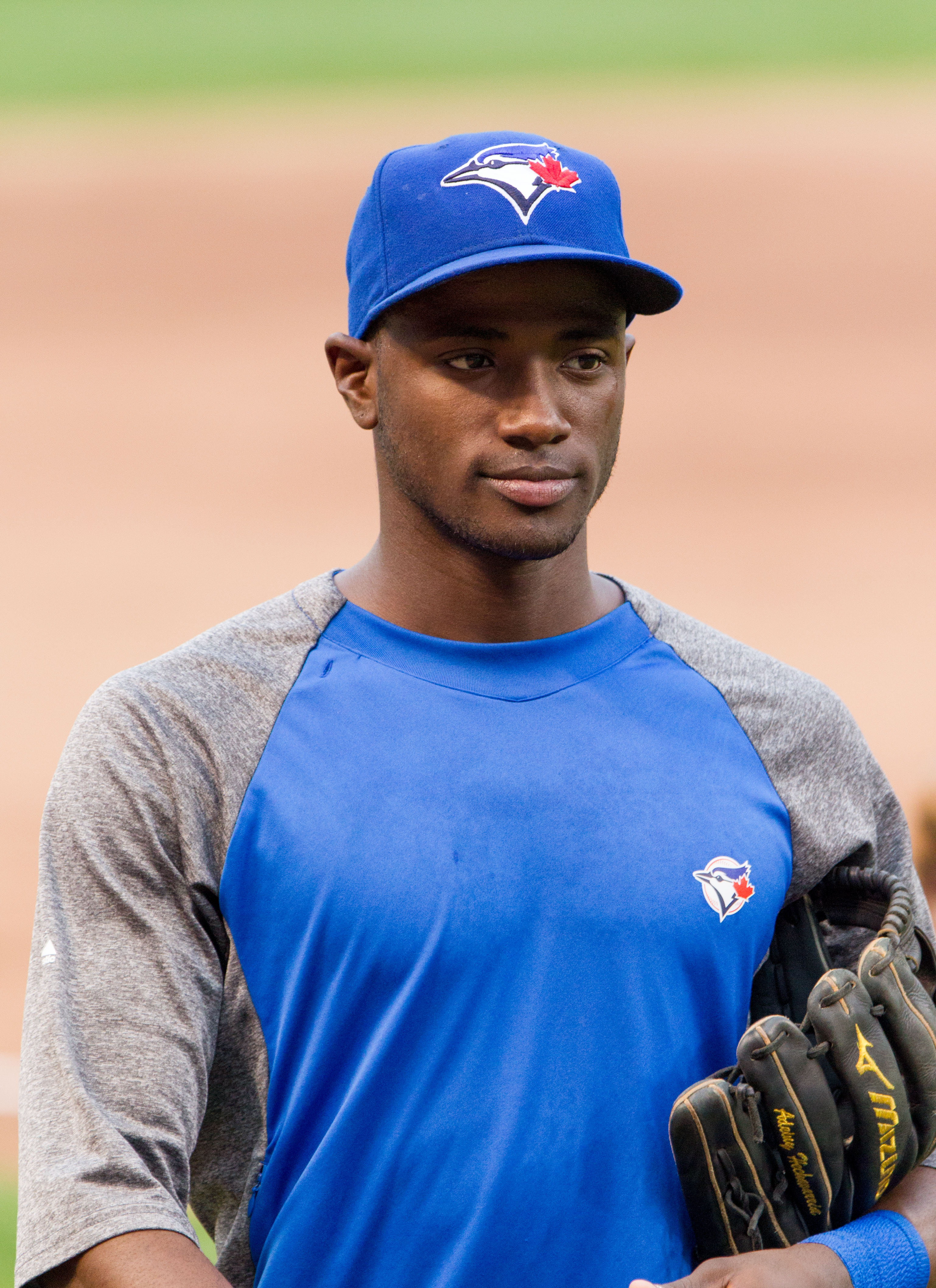 Adeiny Hechavarria